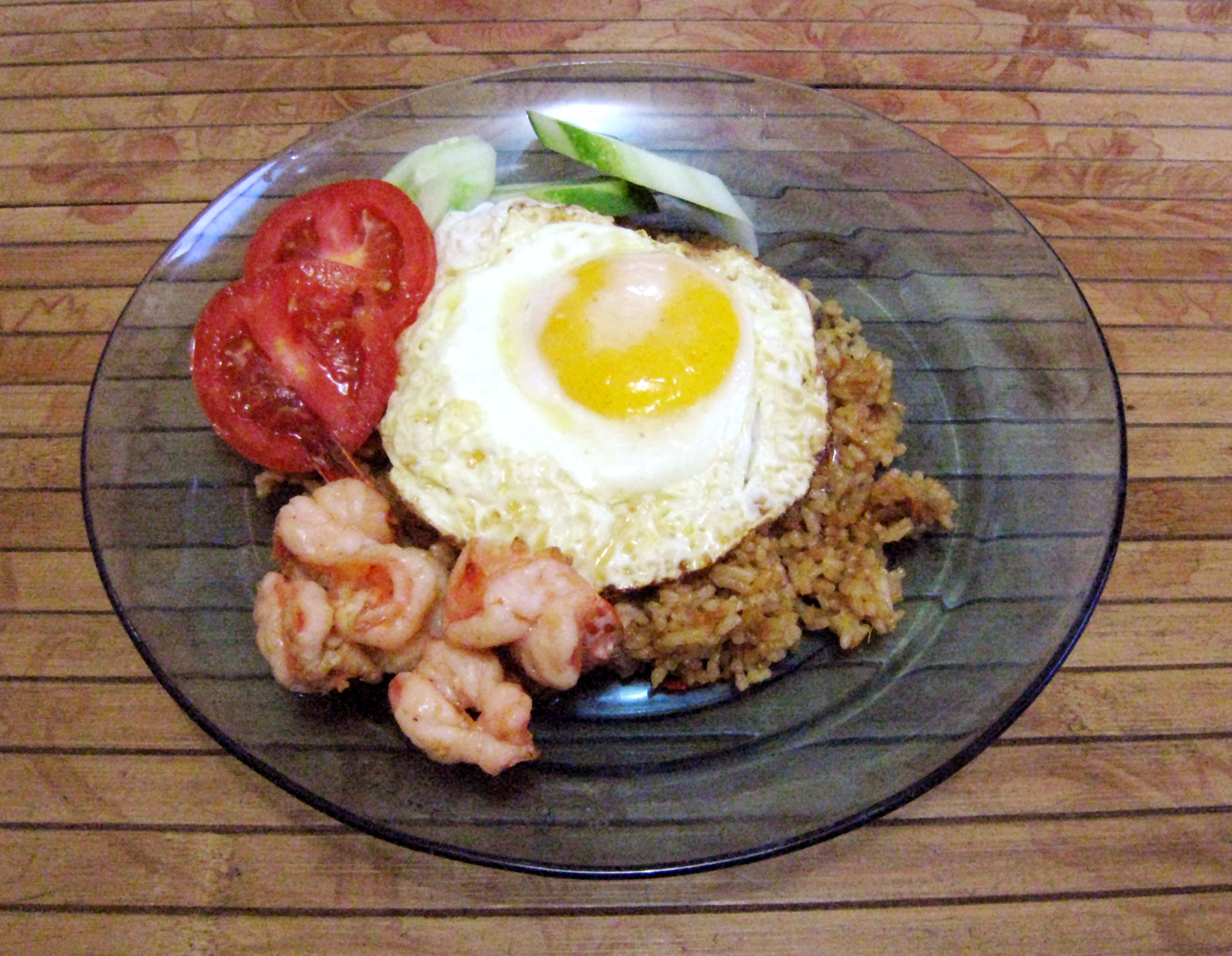 Nasi goreng udang istimewa, fried rice with prawn and fried egg with fresh cucumber and tomato. A typical Indonesian breakfast in a common Indonesian household in Jakarta.